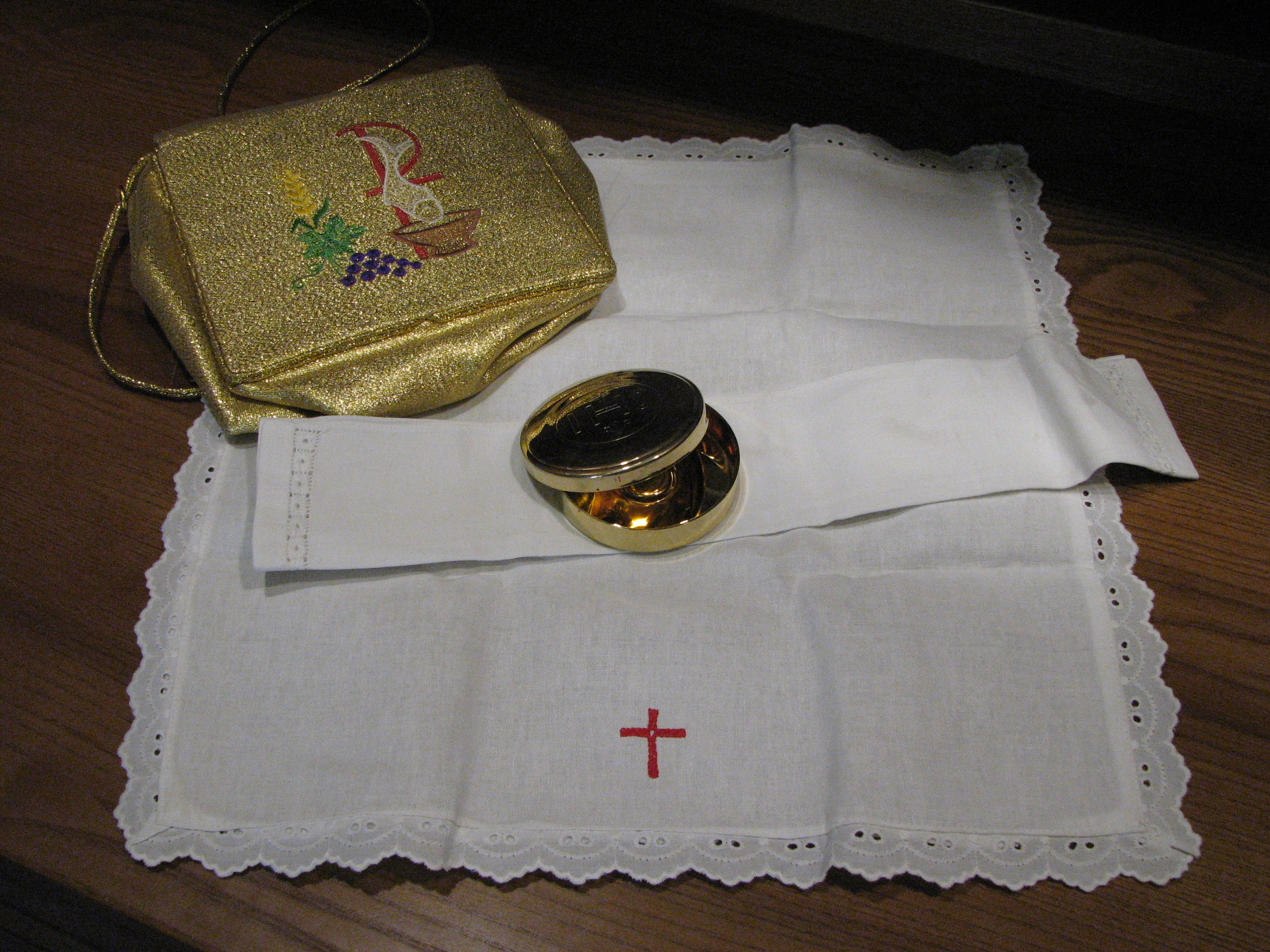 Burse (Bursa) to carry Holy Communion to the patient's home or hospital rooms.